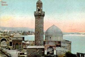 Baku. Old postcard